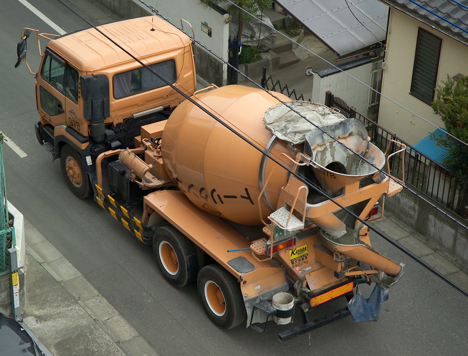 This Kayaba Rocket Cement mixer trucks delivers concrete in Japan.